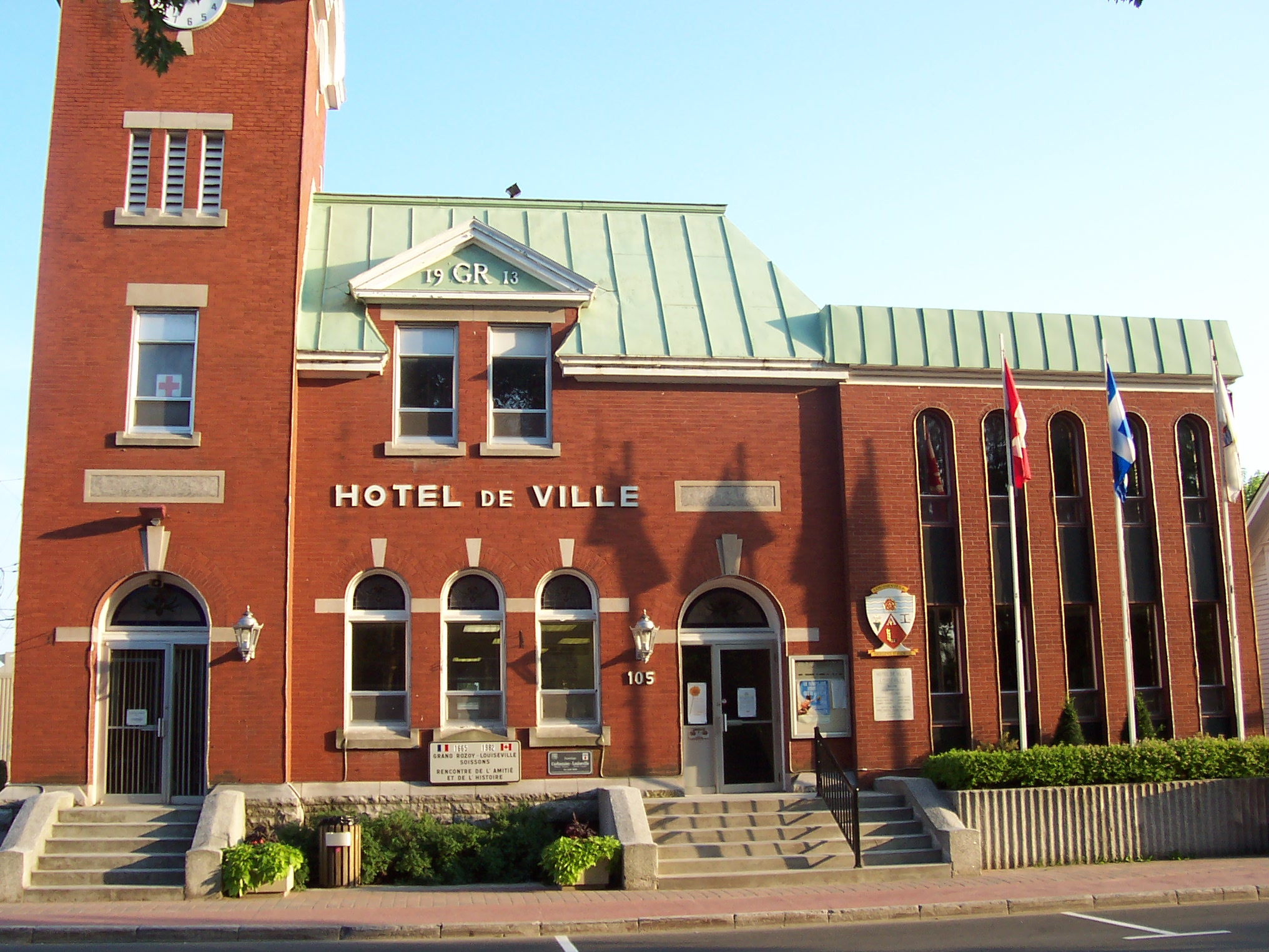 Louiseville city hall, Quebec, Canada, July 21st, 2007.